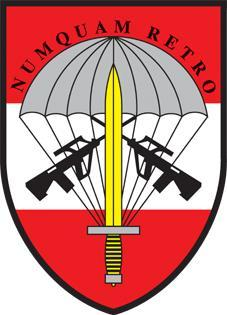 Troop badge (logo) of the Jagdkommando (enː combat or skirmishing command) of the Austrian Bundesheer.